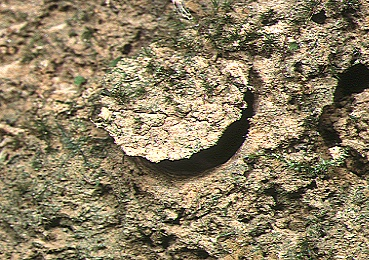 burrow of Latouchia formosensis from Okinawa.